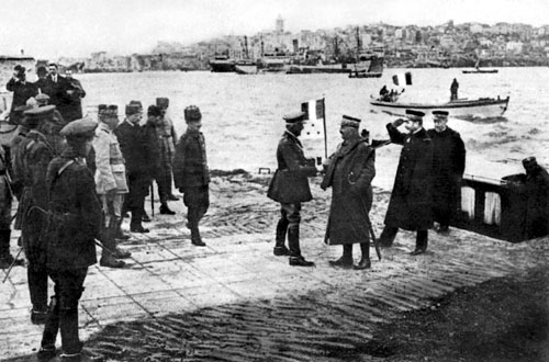 Occupation of Constantinople